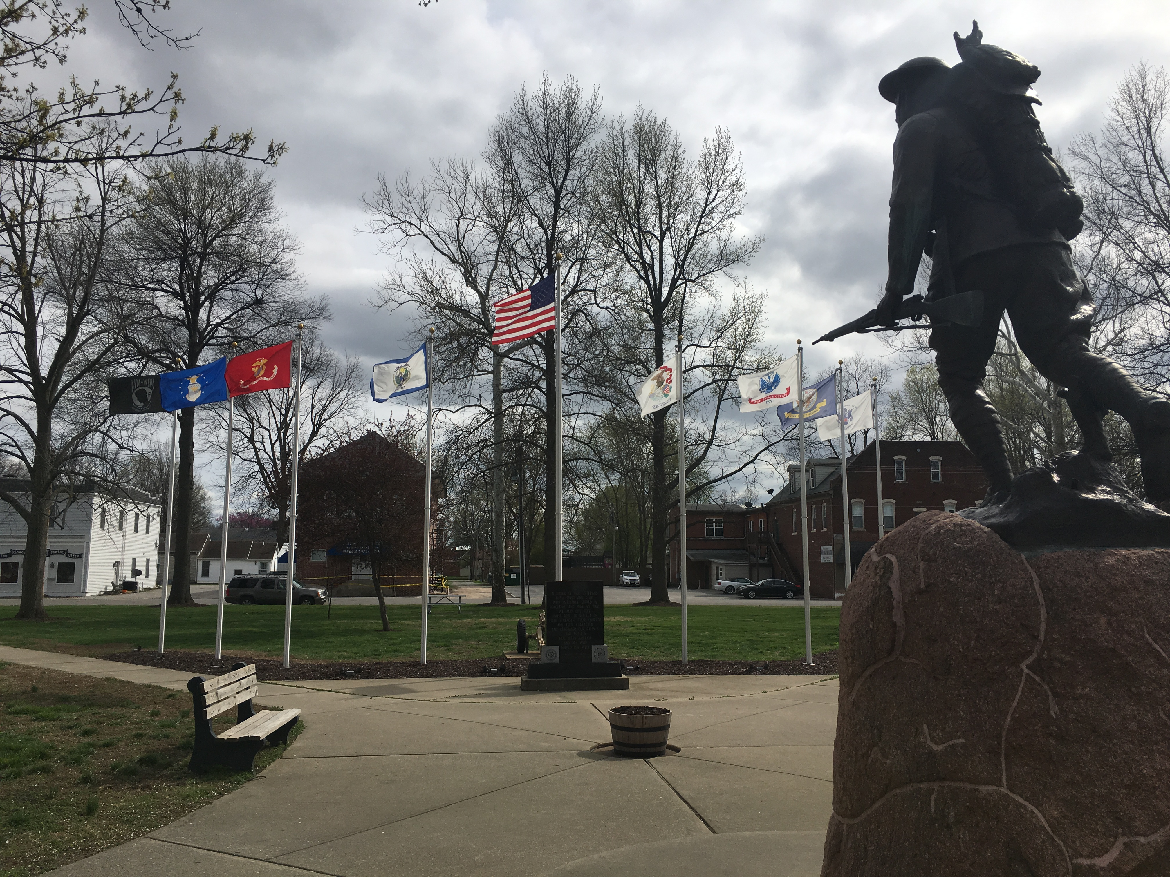 Veterans' Memorial in Freeburg's Village Park.